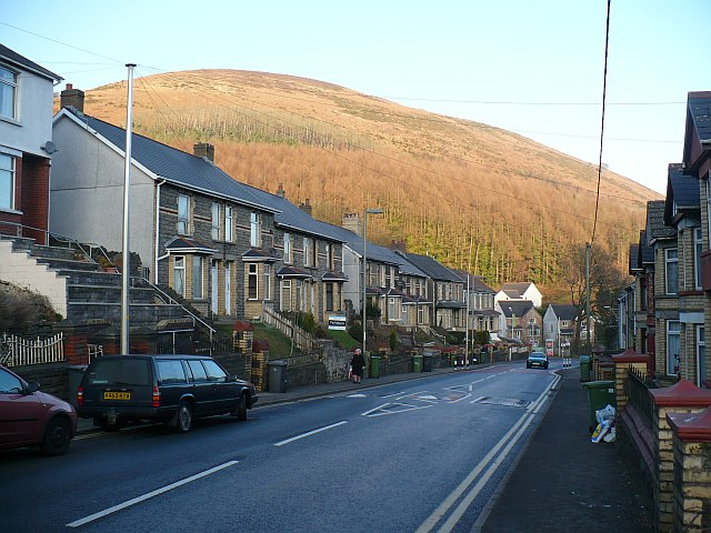 Nine Mile Point Road, Wattsville Approaching Wattsville from the west with a view of Mynydd y Lan. The name of a nearby colliery was Nine Mile Point as it was situated nine miles from Newport Docks.